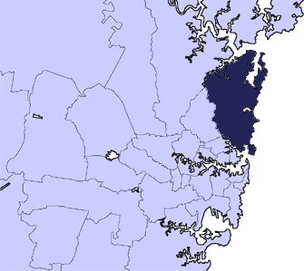 Locator map for Northern Beaches Council in Sydney